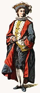 Maurice Sand - Lelio